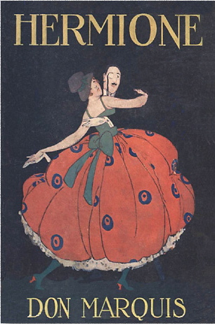 Digital image of the dust jacket of Hermione and her Little Group of Serious Thinkers by Don Marquis, an early work of humour, produced in 1916. early edition, Hardcover.